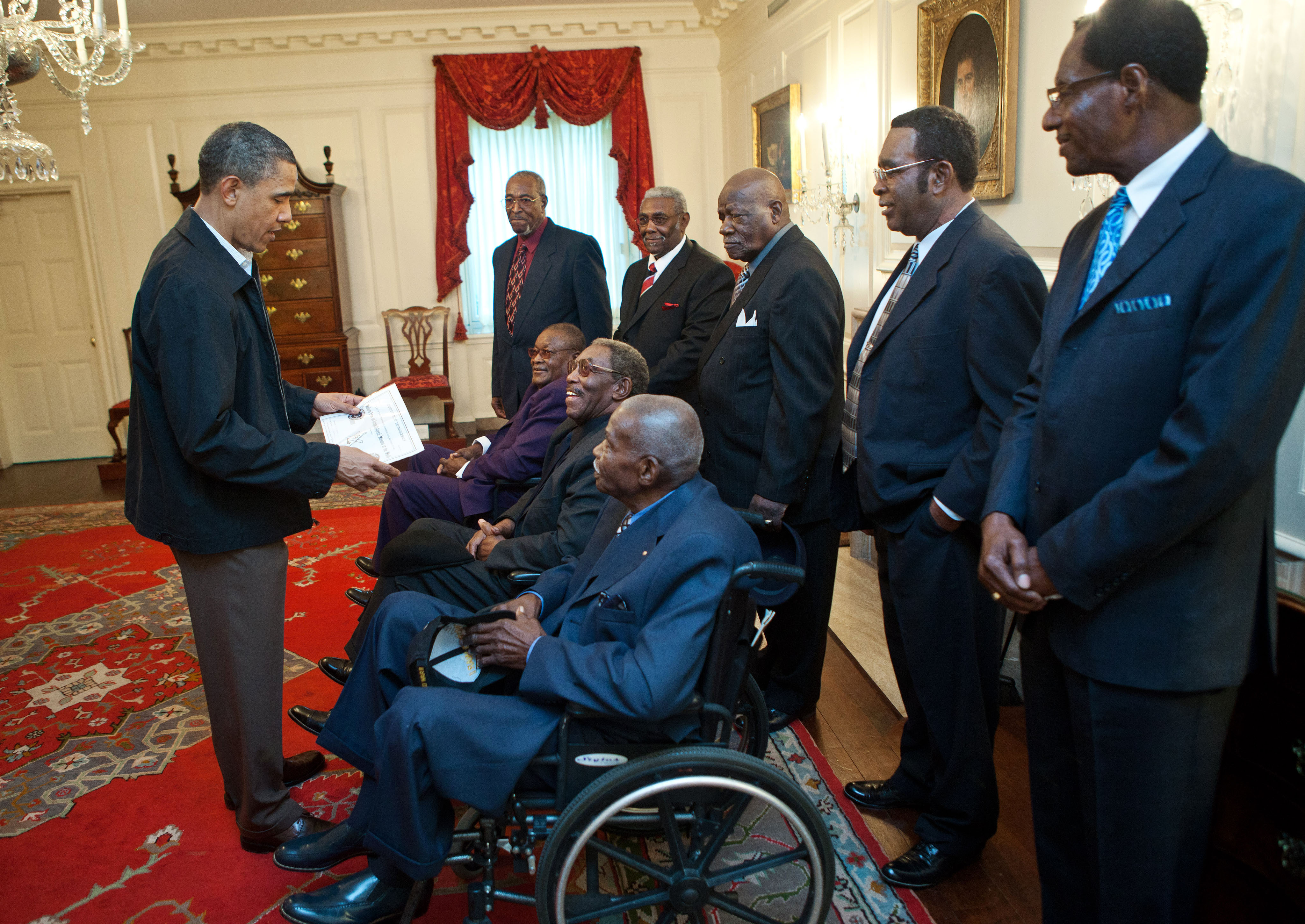 President Barack Obama talks with participants from the 1968 Memphis sanitation strike, an iconic campaign in civil rights and labor rights history, during meeting in the Map Room of the White House, April 29, 2011. (Official White House Photo by Lawrence Jackson)This official White House photograph is being made available only for publication by news organizations and/or for personal use printing by the subject(s) of the photograph. The photograph may not be manipulated in any way and may not be used in commercial or political materials, advertisements, emails, products, promotions that in any way suggests approval or endorsement of the President, the First Family, or the White House.